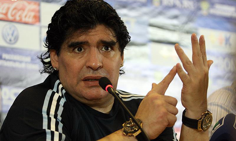 Diego Maradona